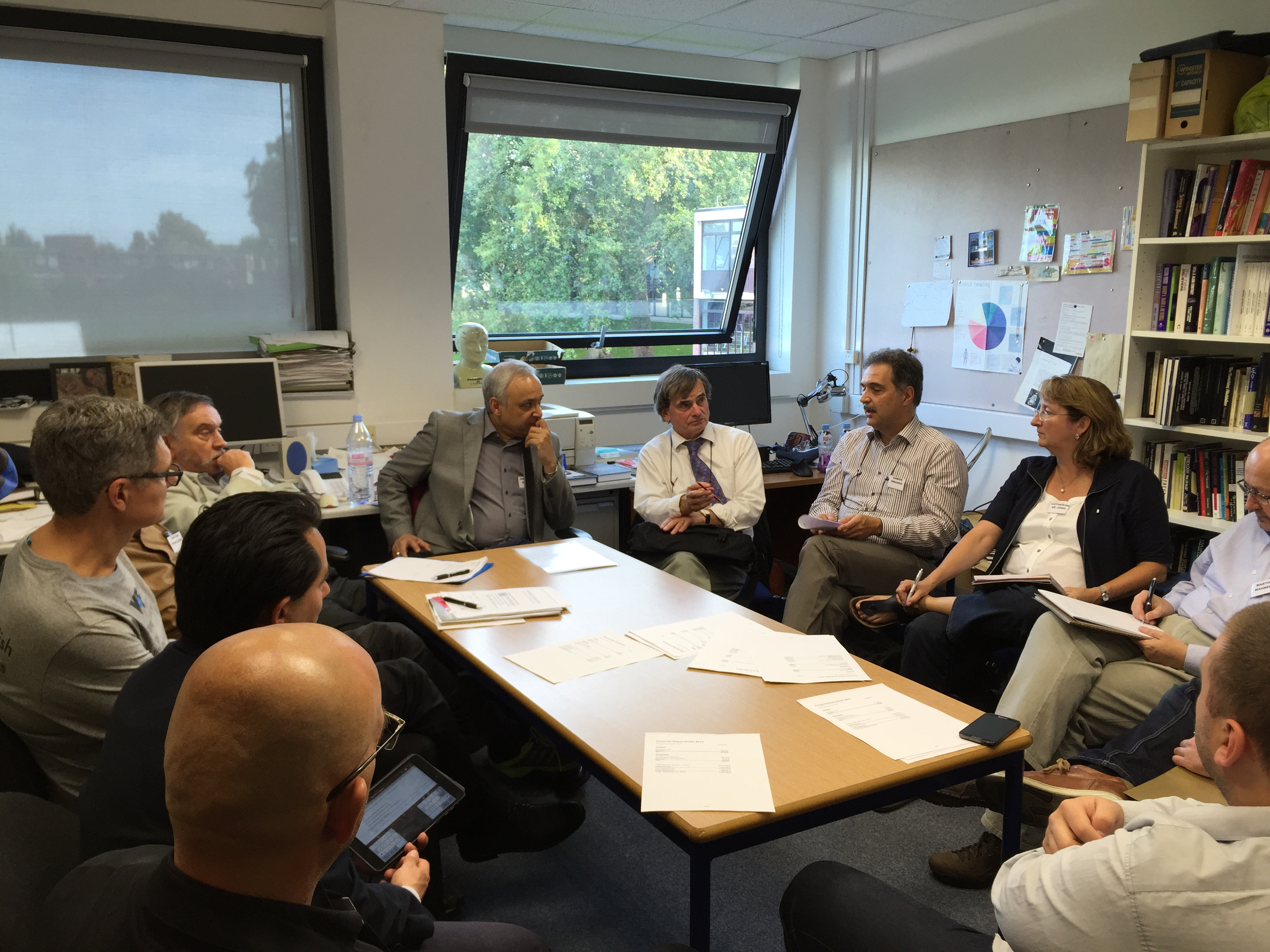 Meeting of the representatives of member organisations of ECSO (European Council of Skeptical Organisations) after the Friday afternoon session of European Skeptics Congress 2015 in London.